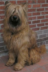 stanley (Briard)